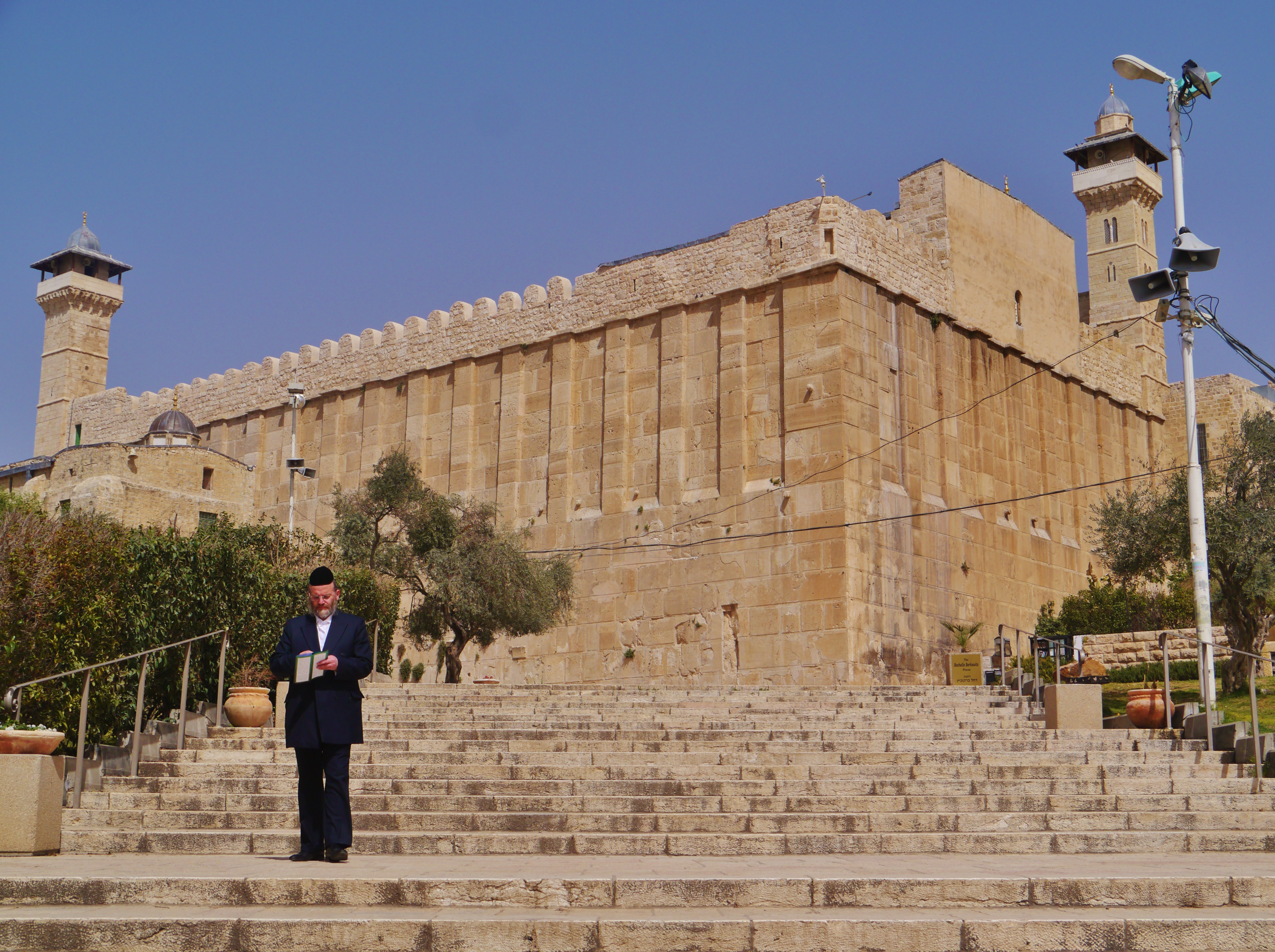 Cave of the Patriarchs/Synagogue, Hebron, Palestine